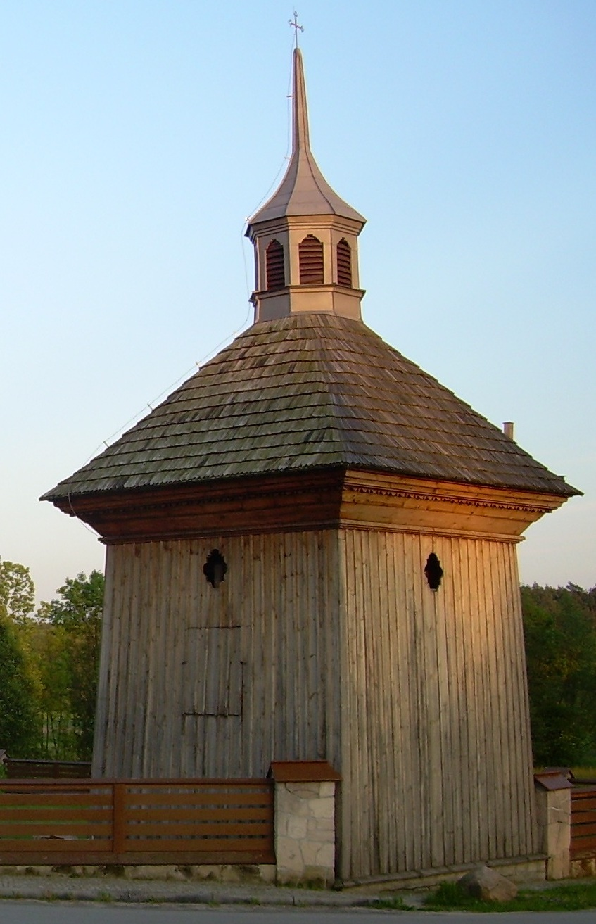 DZWONNICA_N_NMP_NIEKRASOW